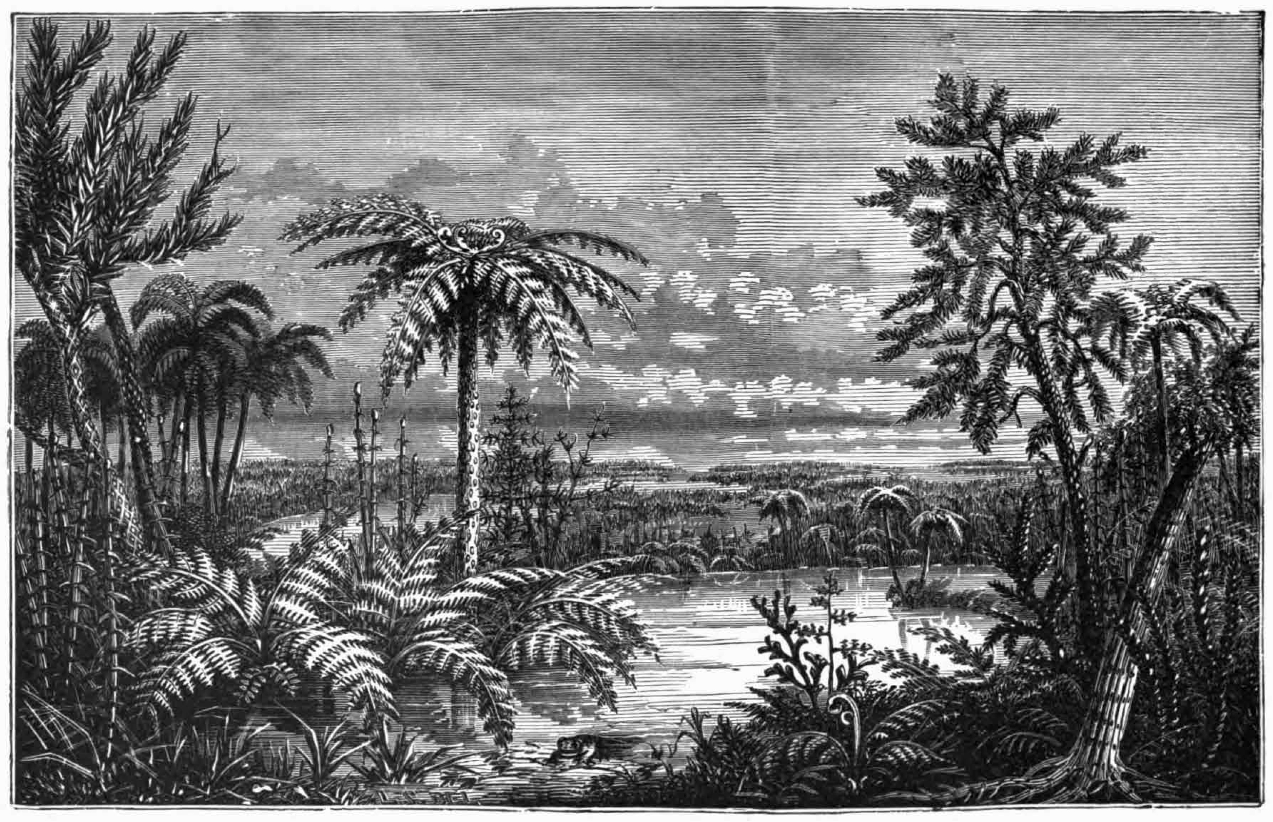 "Carboniferous Pteridophyta (After Dana)" from a the 1896 edition of Underwood's Native Ferns and their Allies.